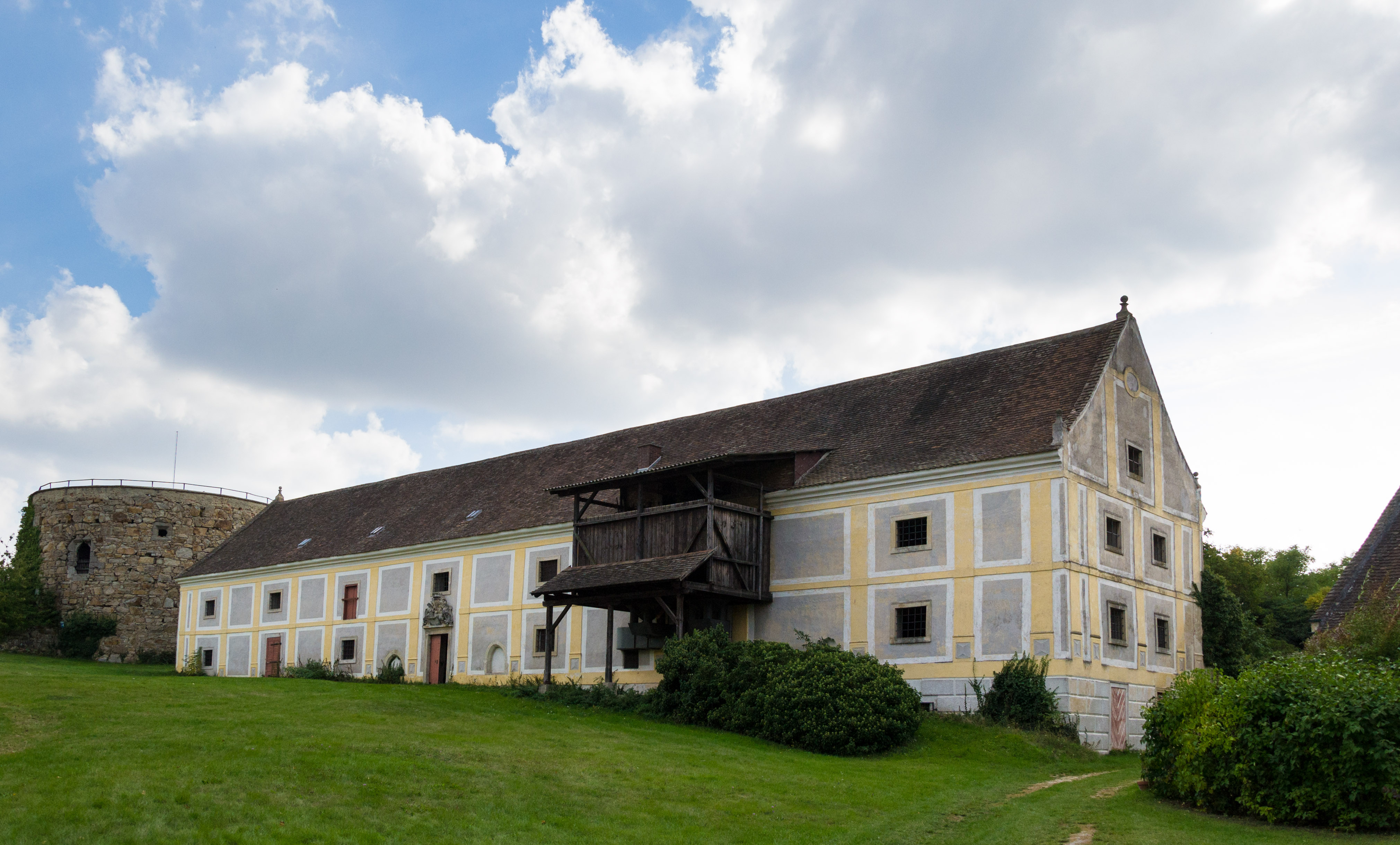 Schloss Schrattenthal Dieses Bild wurde anlässlich des österreichischen Tags des Denkmals 2013 in Niederösterreich eingereicht.